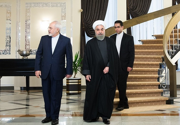 President Hassan Rouhani and FM Javad Zarif in Saadabad Palace